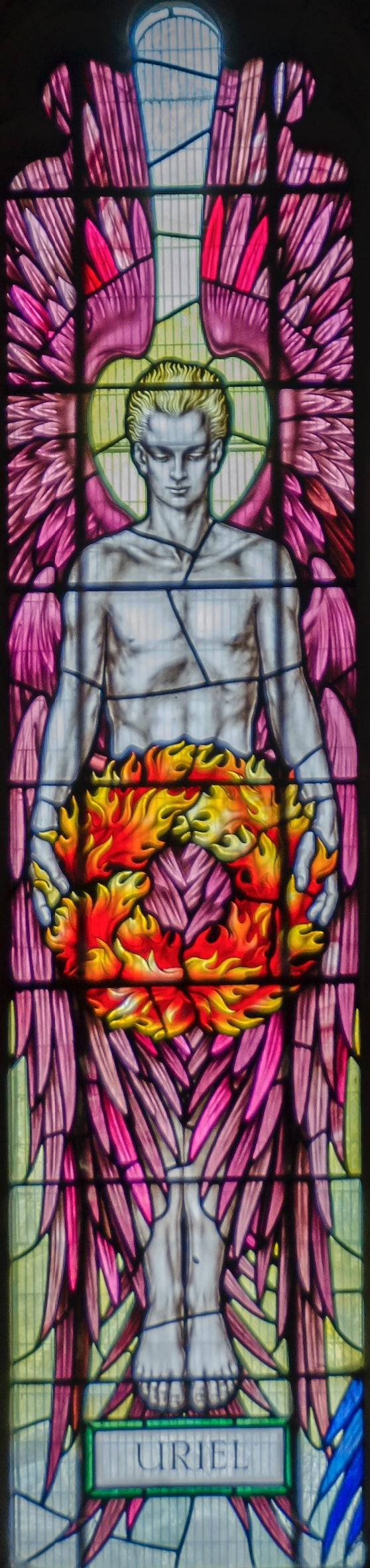 Stained glass depicting the archangel Uriel, at the Minster and Parish Church of St James, Grimsby.